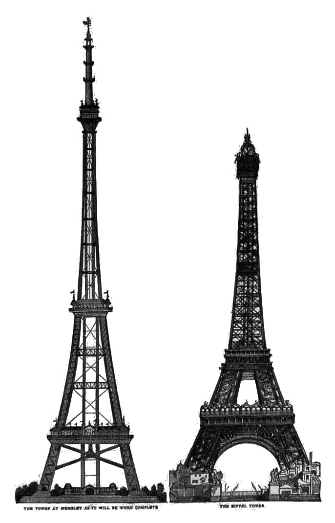 Graphic of Watkin’s Tower and Eiffel Tower